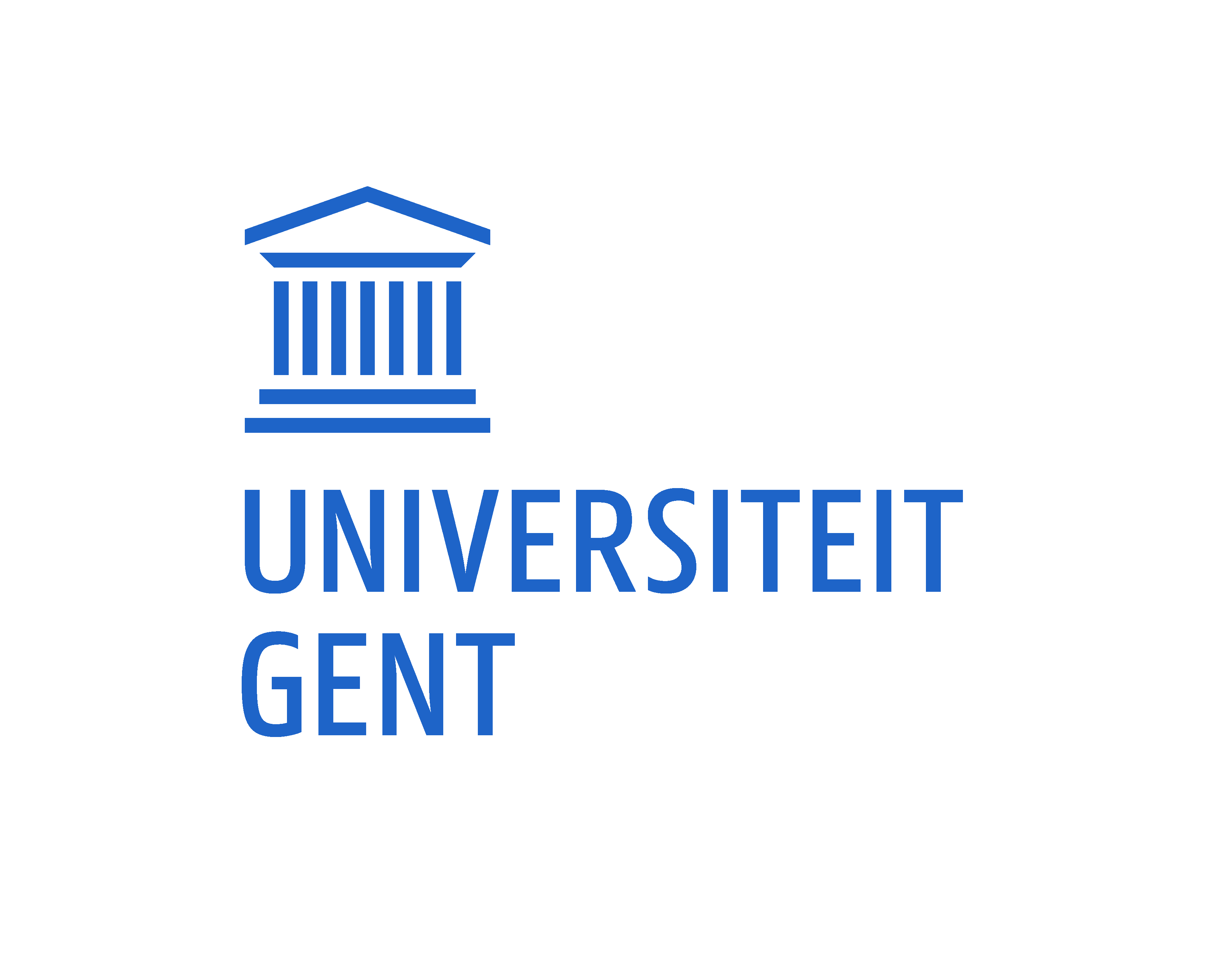 logo Universiteit Gent